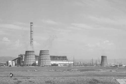 Ulan Bator thermoelectric plant No. 4